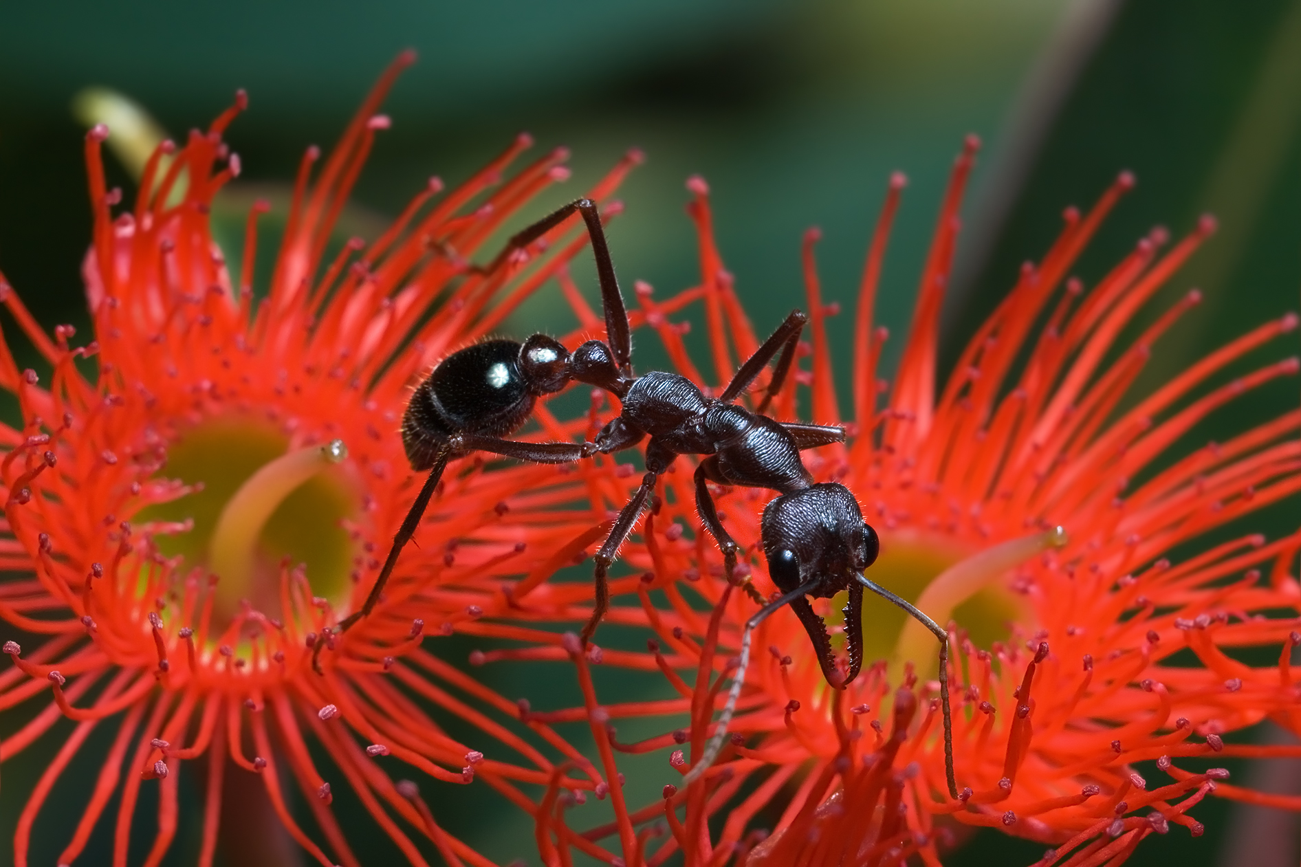 Inchman (Myrmecia forficata) feeding on a flowering Corymbia ficifolia, Austins Ferry, Tasmania, Australia